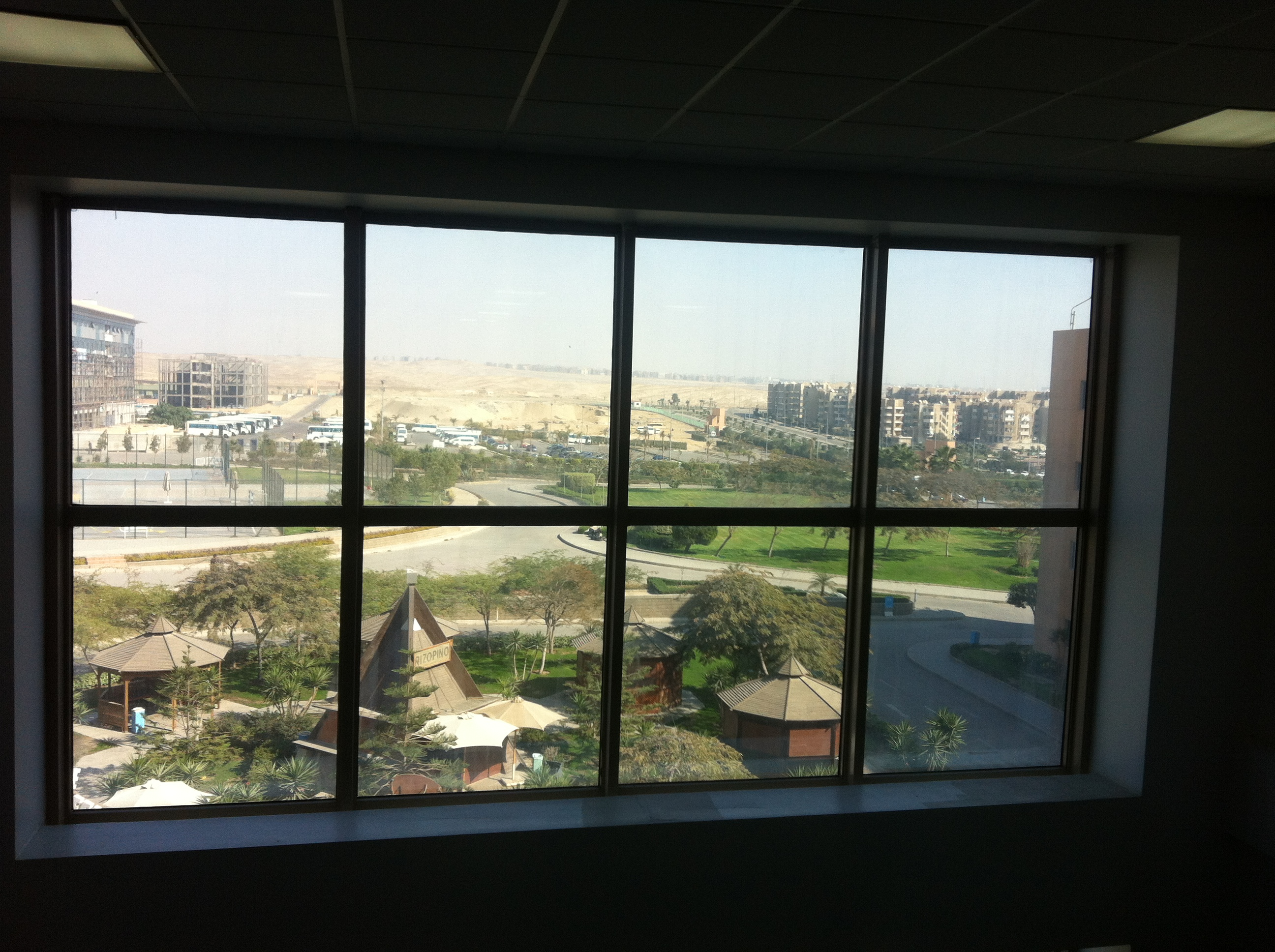 Desert view from GUC